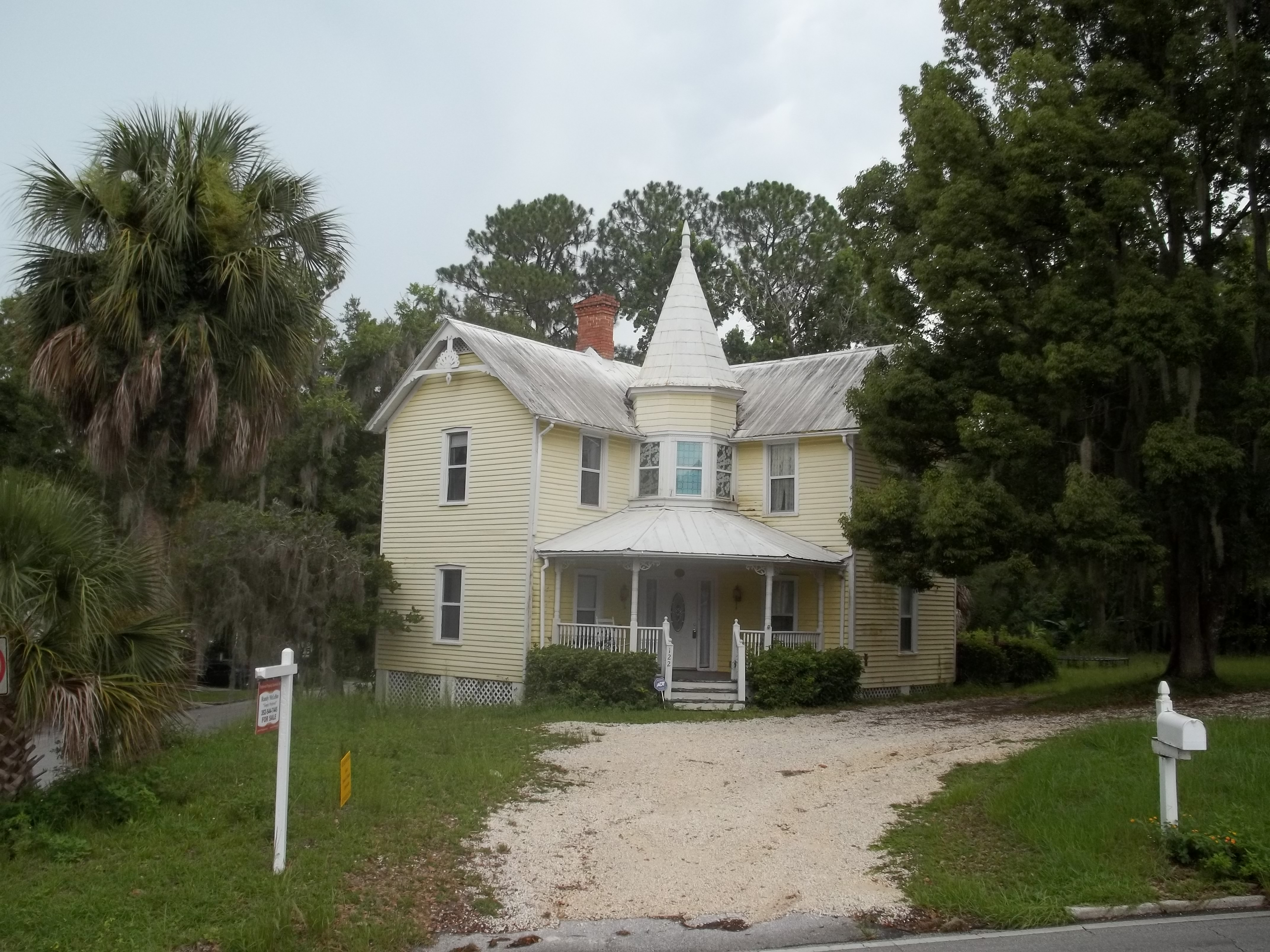 Brooksville, Florida: House. Looked interesting.